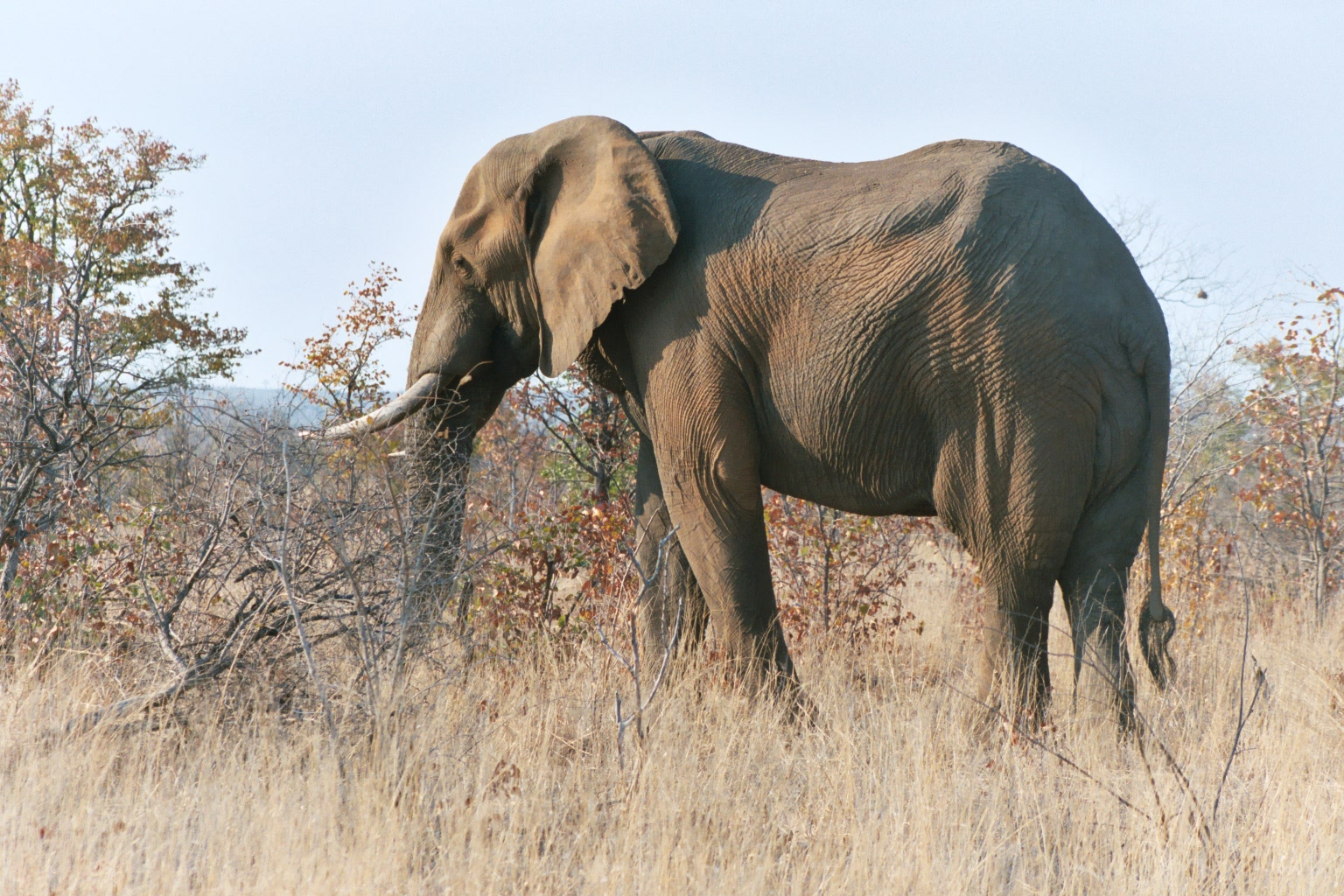 Elephant from Kruger Park, South Africa.